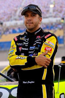 NASCAR Camping World Truck Series driver Matt Crafton stands before his No. 88 Menards Chevrolet Silverado at Kentucky Speedway in July 2011.